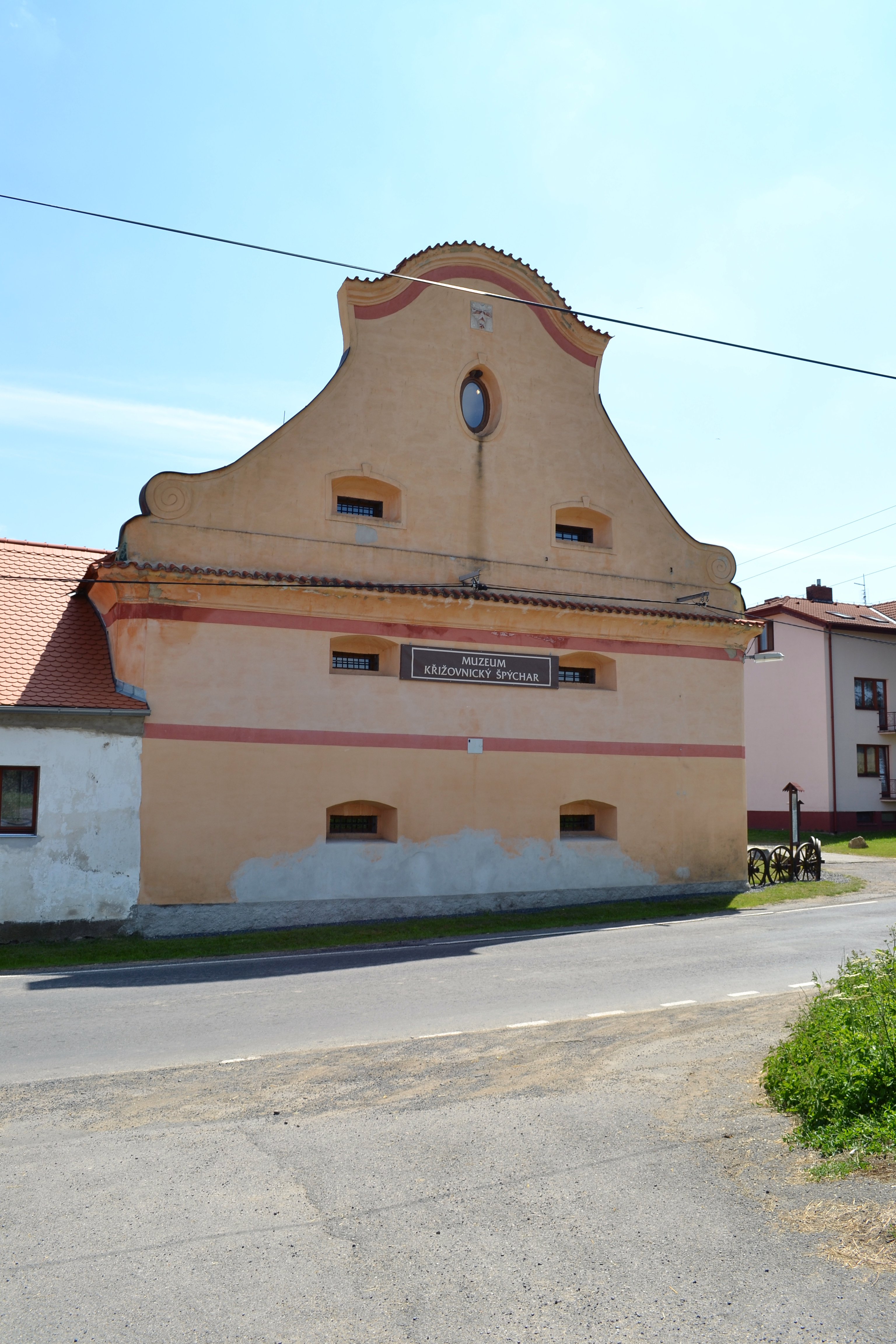 Museum Špýchar, Prostřední Lhota, Chotilsko, Central Bohemian Region, Czech Republic.